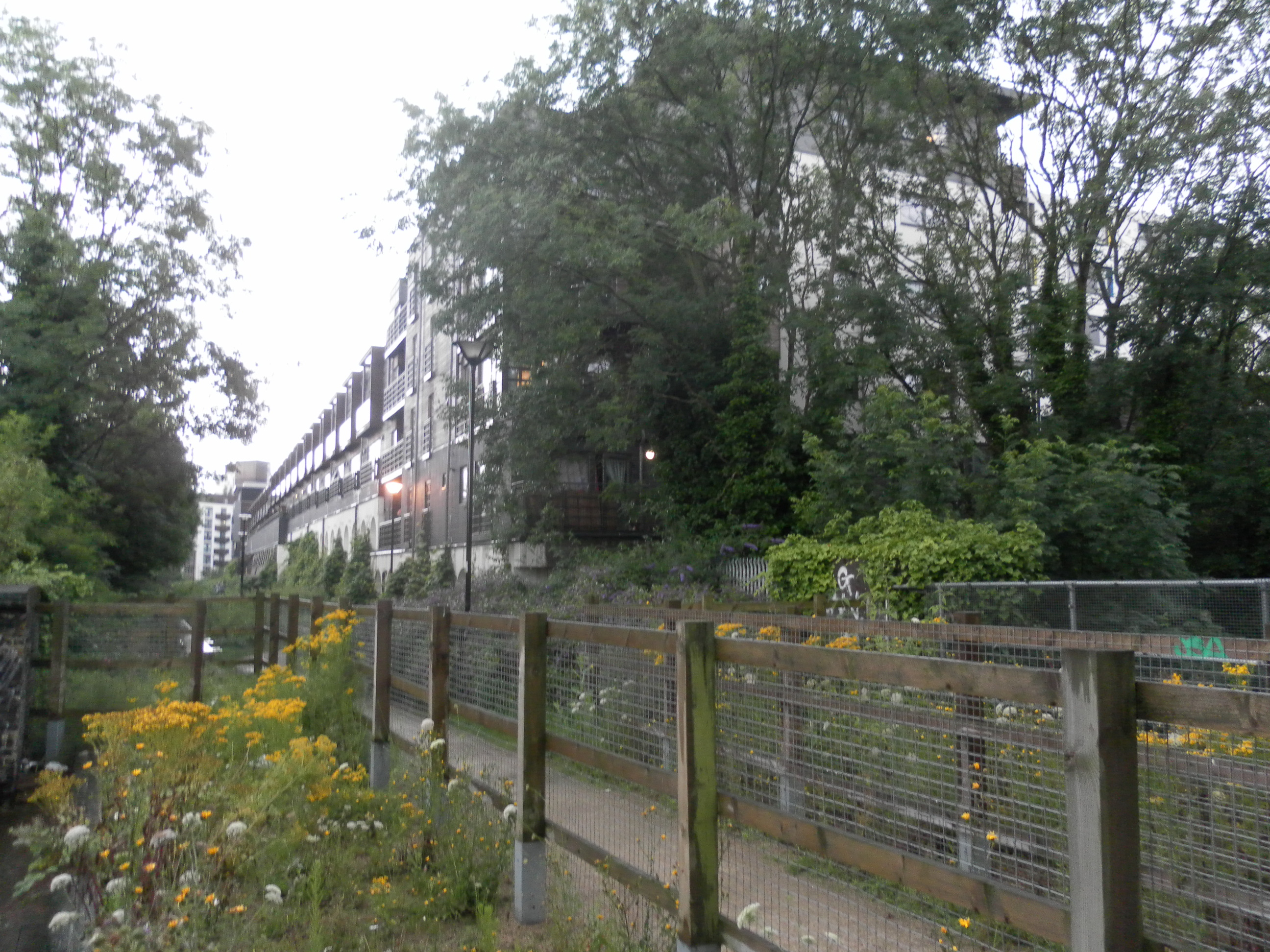 The Greenway "green corridor" in the New England Quarter, a large mixed-use development next to Brighton railway station in the City of Brighton and Hove, England. It runs behind the housing units of Gladstone Place ("Block G").